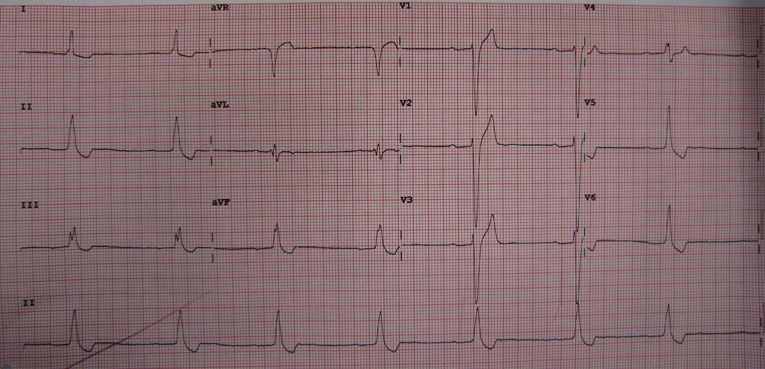 Digoxin toxicty